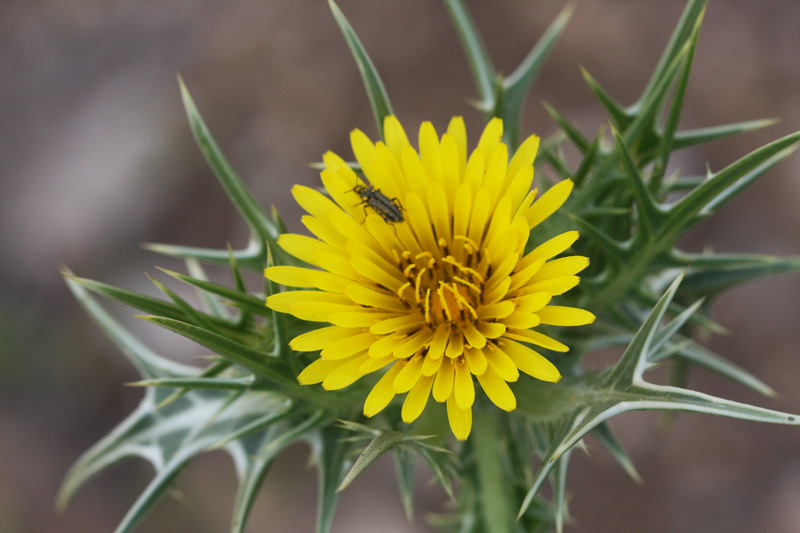 Scolymus Maculatus, Plants of Israel